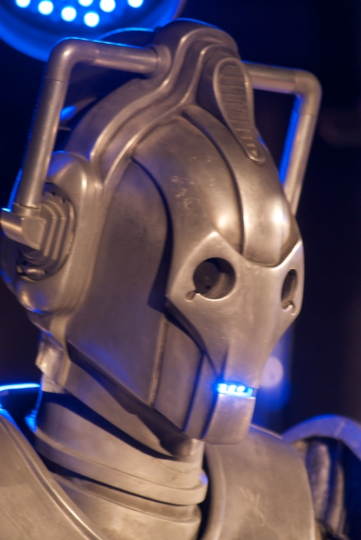 Cybermen Doctor Who Experience